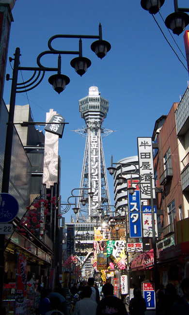 Tsutenkaku Tower, in the Shinsekai neighborhood of Osaka.Tsutenkaku Tower